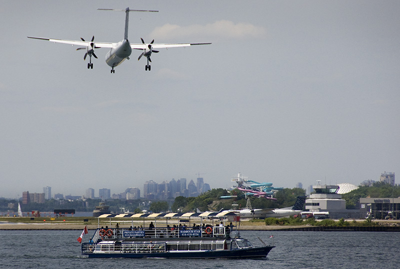 The following is the author's description of the photograph quoted directly from the photograph's Flickr page. "This is a very noisy event, though that only lasts for a moment. City Centre Airport, Toronto "